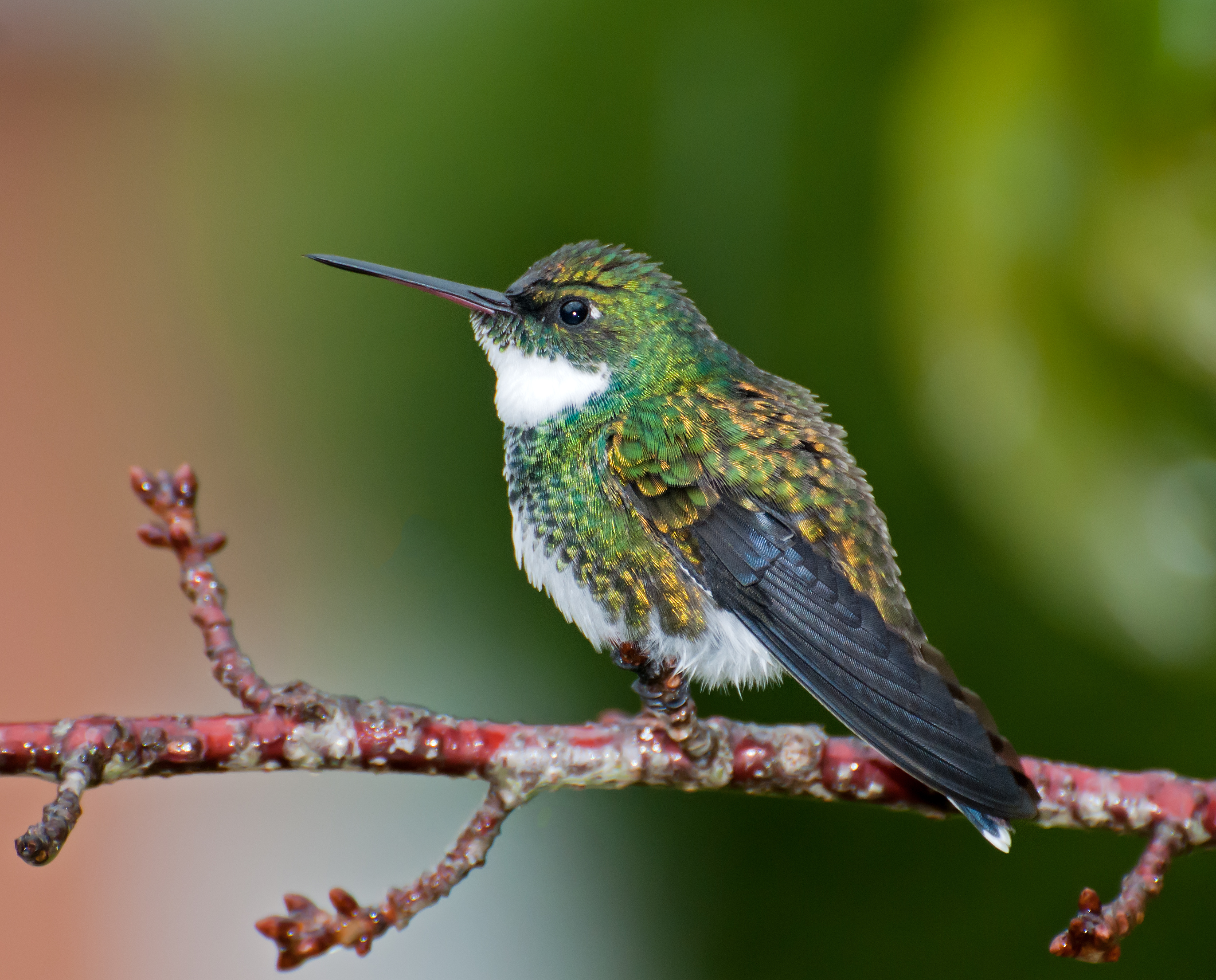 A White-throated Hummingbird in Campos do Jordão, São Paulo, Brazil.